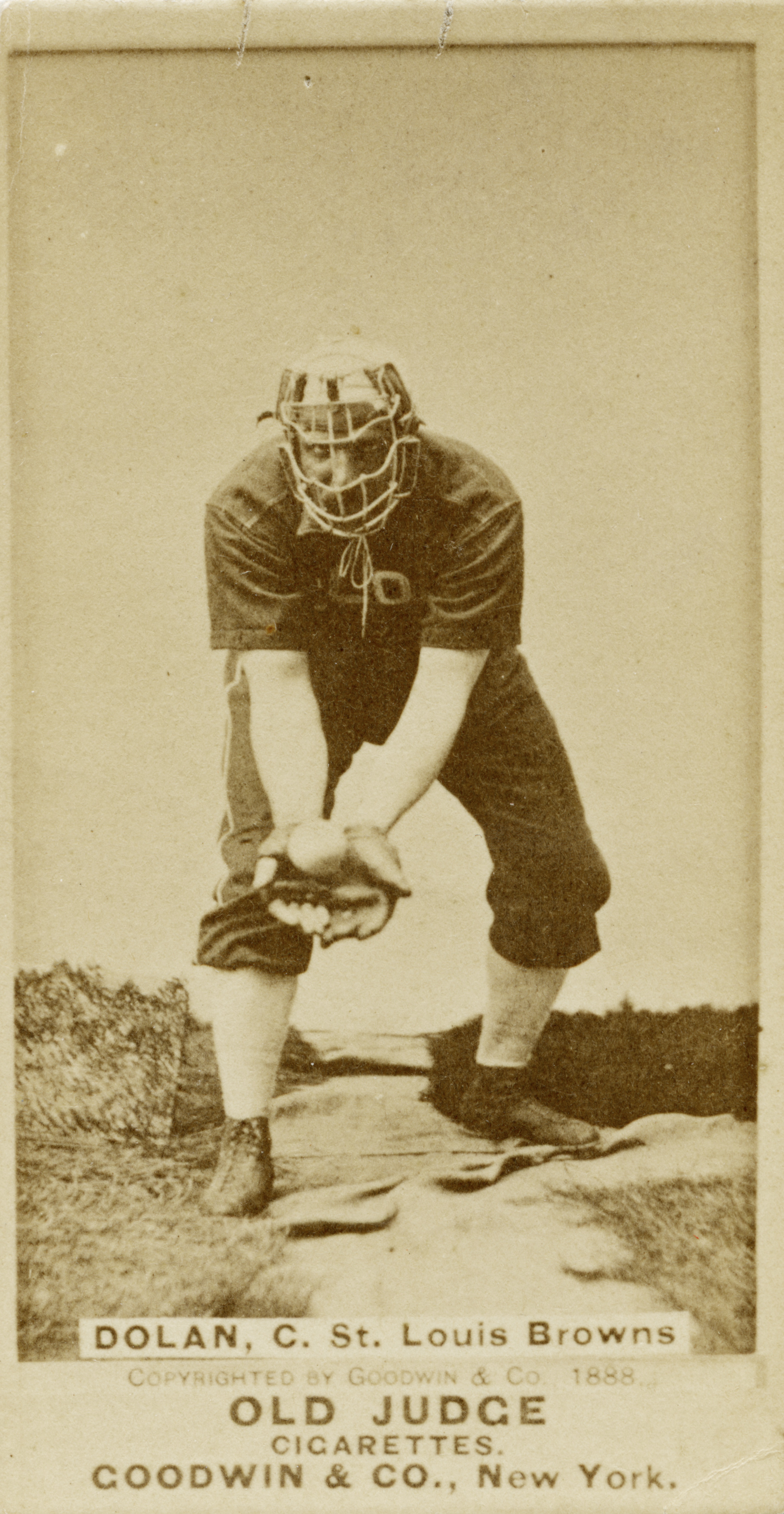 Vertical, sepia photograph on a baseball card of Tom Dolan. He is wearing a dark uniform, and standing positioned as if waiting to catch a ball. Someone behind the camera threw a ball to him, and you can see it in front of his hands. He is wearing a face mask. Below the image reads "DOLAN, C. St. Louis Browns. OLD JUDGE Cigarettes. Goodwin & Co., New York."Title: Old Judge Goodwin and Company baseball card for St. Louis Brown's Tom Dolan.